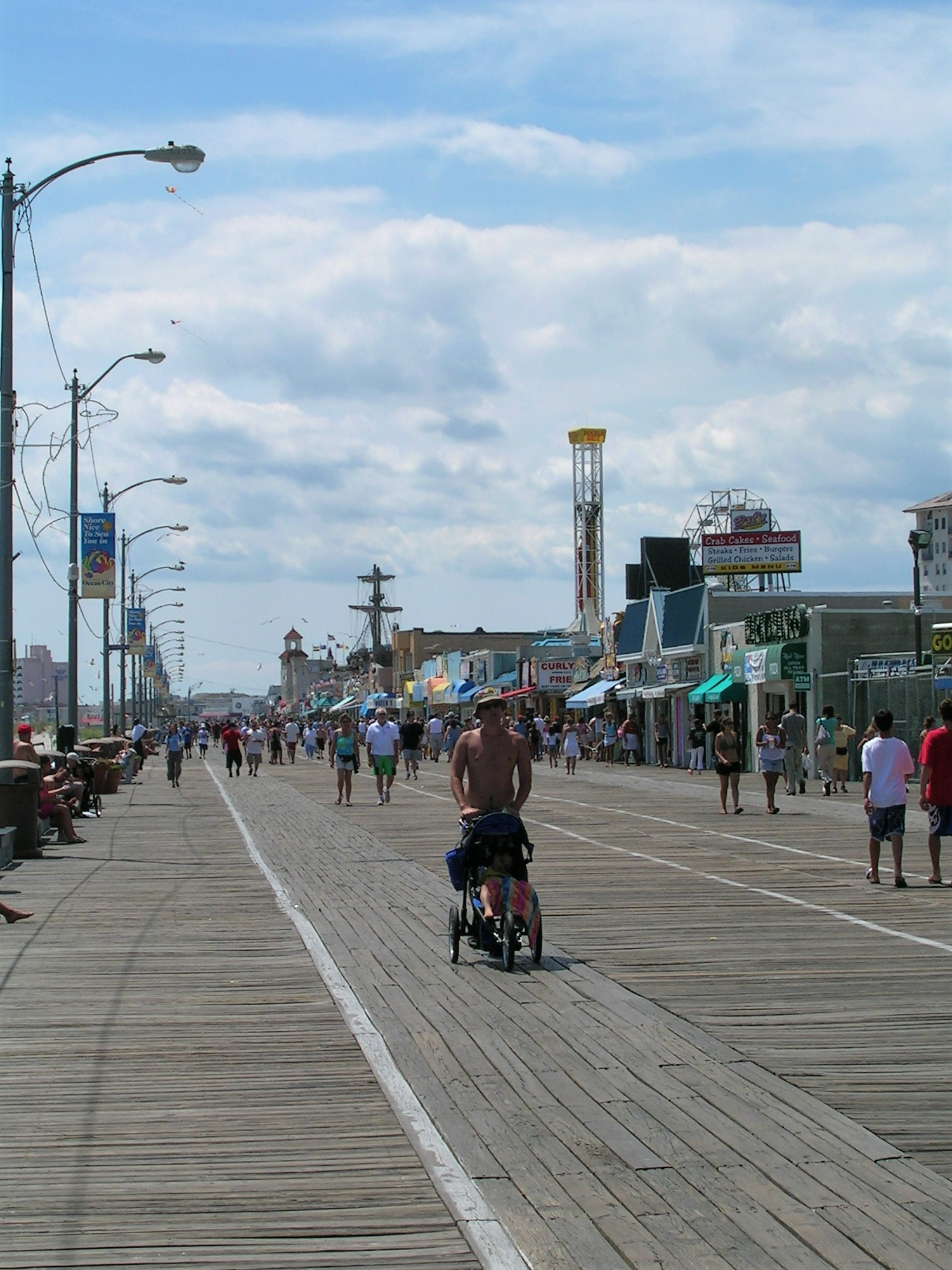 Boardwalk at Ocean City, New Jersey